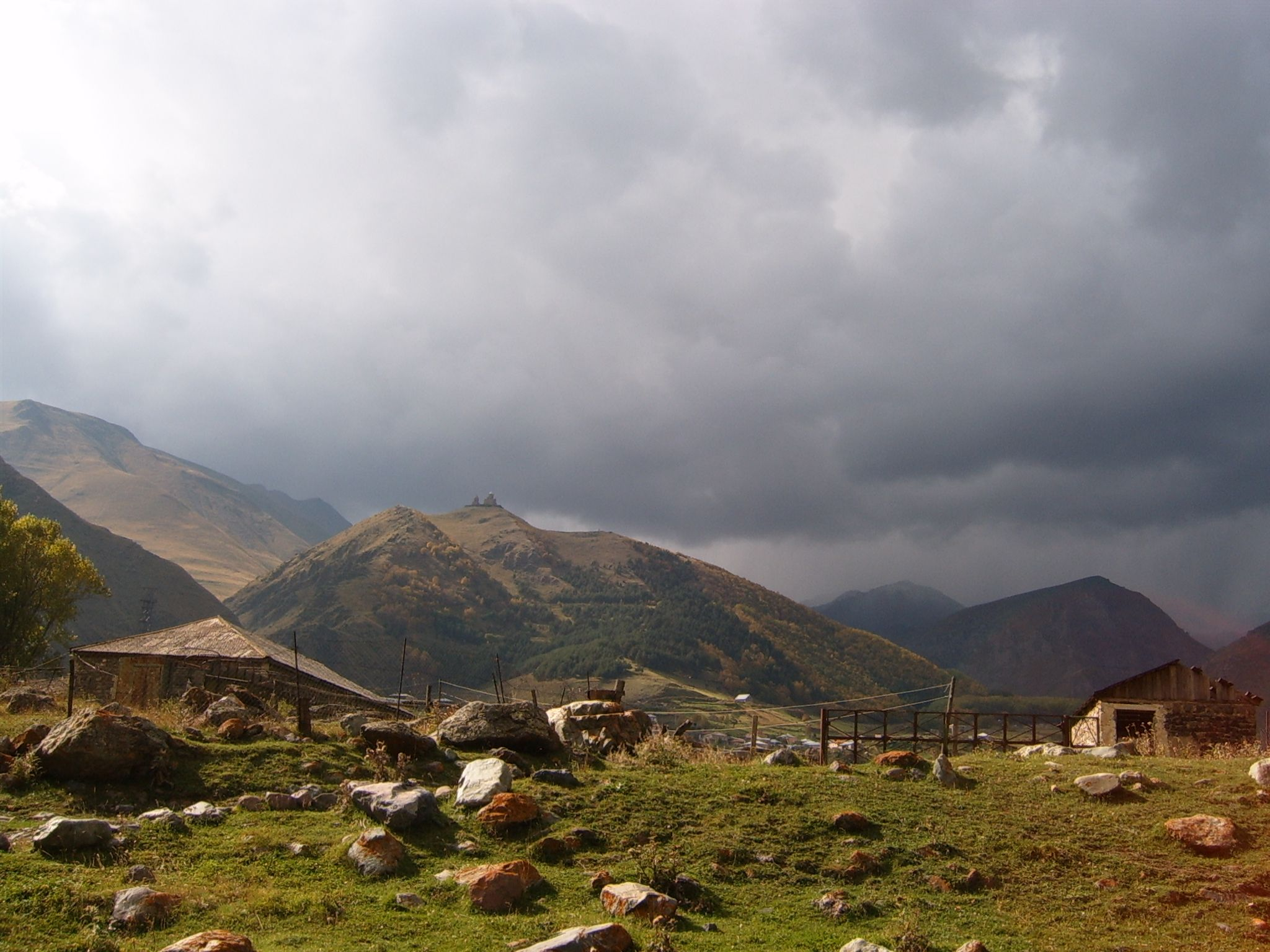 Tsminda Sameba (Holy Trinity Church), not far from mount Kazbegi in Georgia